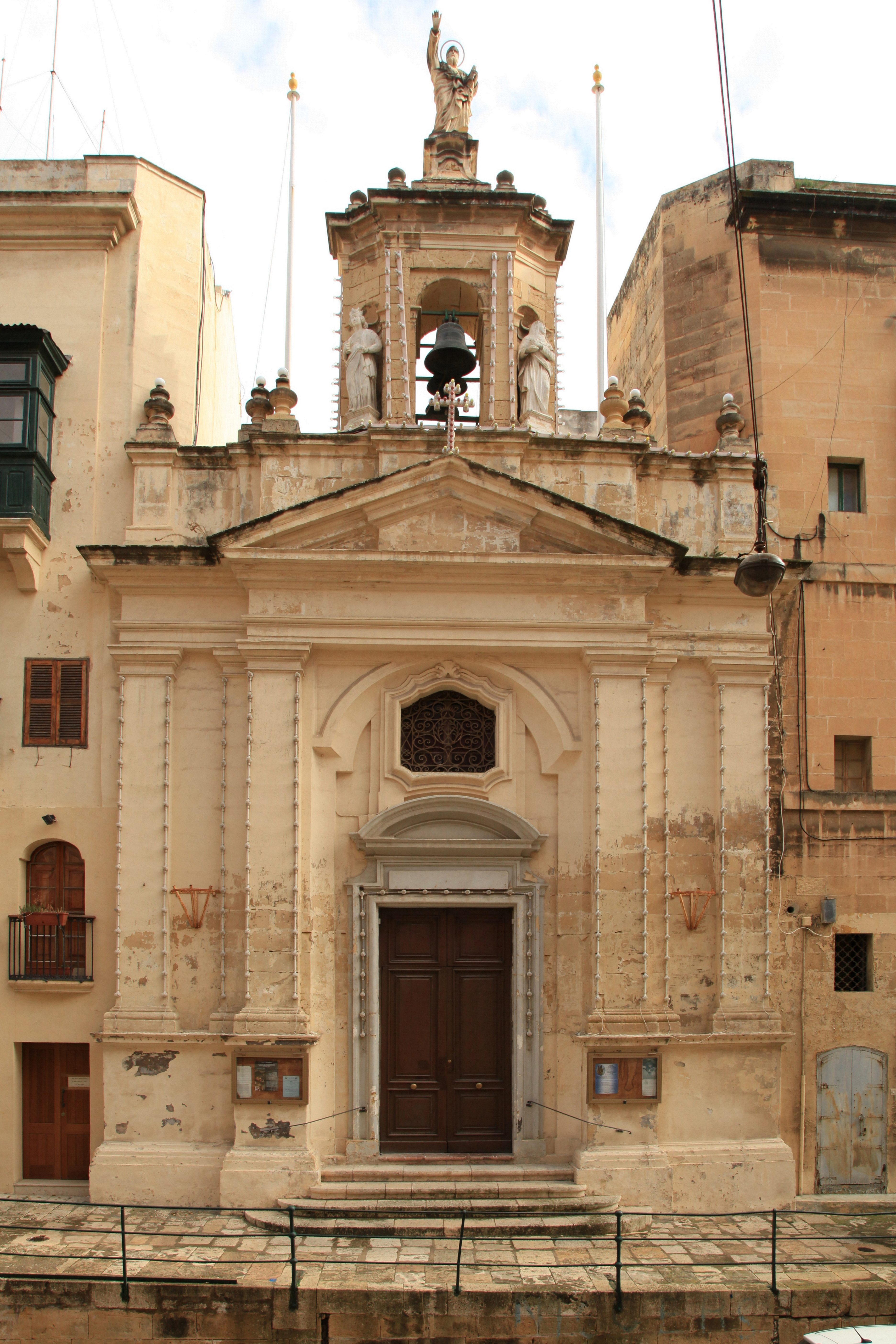 St. Lucy Church (Santa Lucija), Triq il-Lvant in Valletta, Malta